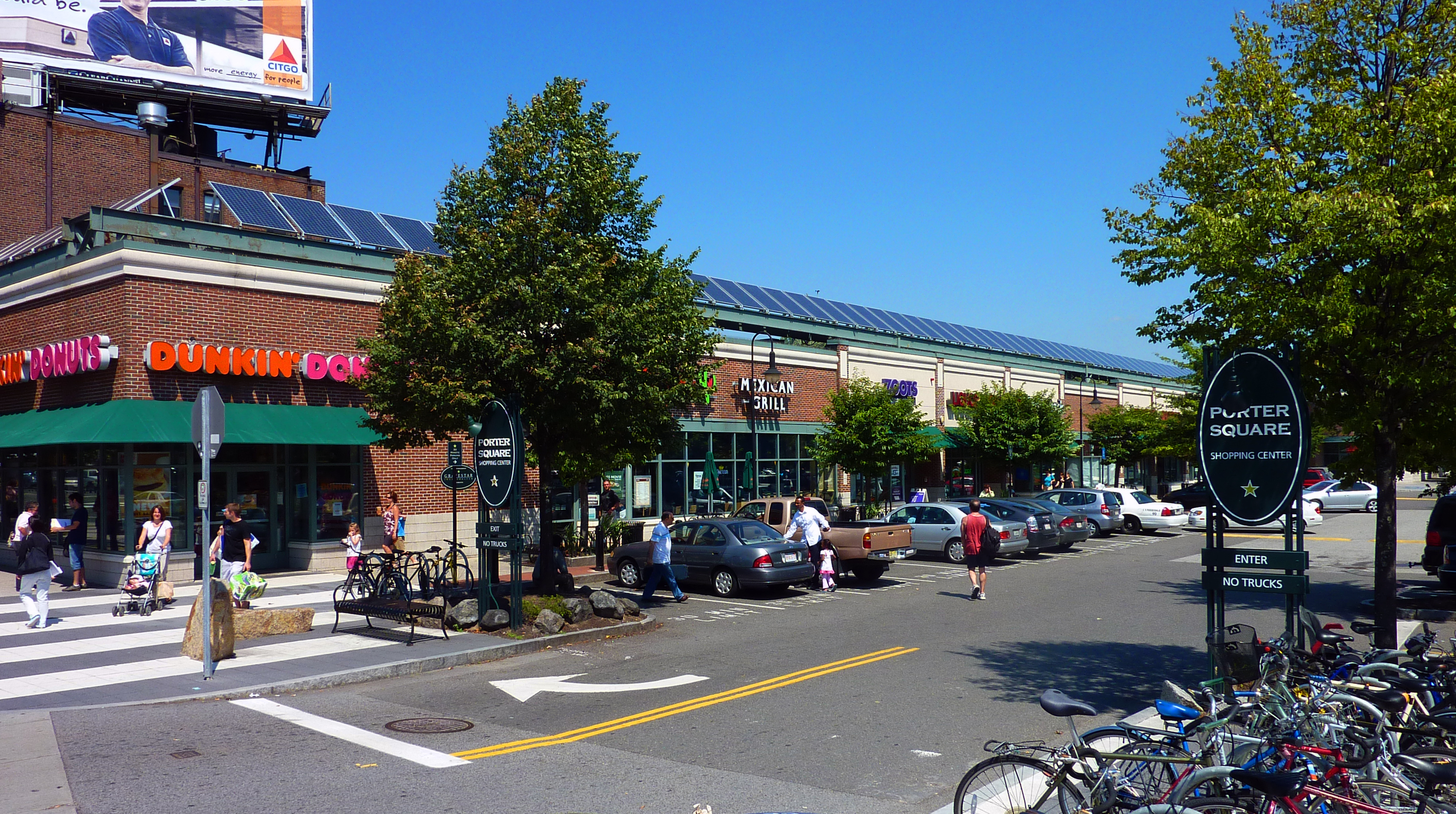 Porter Square Shopping Center in Cambridge, Massachusetts in 2009